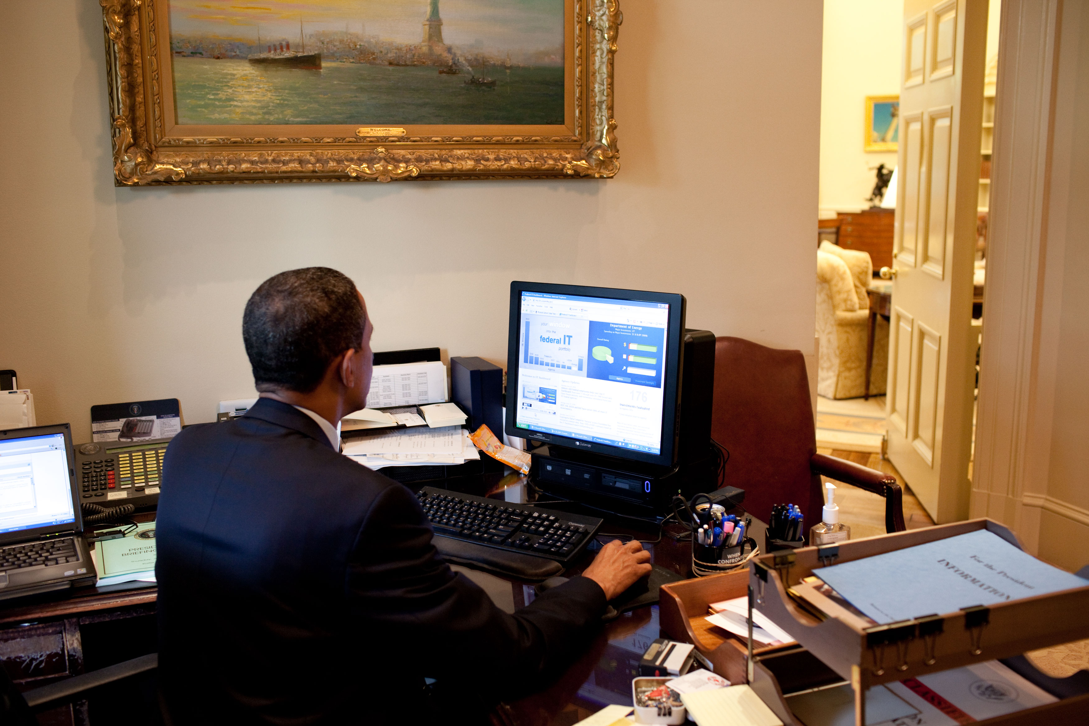 "President Barack Obama tests out the new Federal Government IT Dashboard outside of the Oval Office on July 2, 2009."